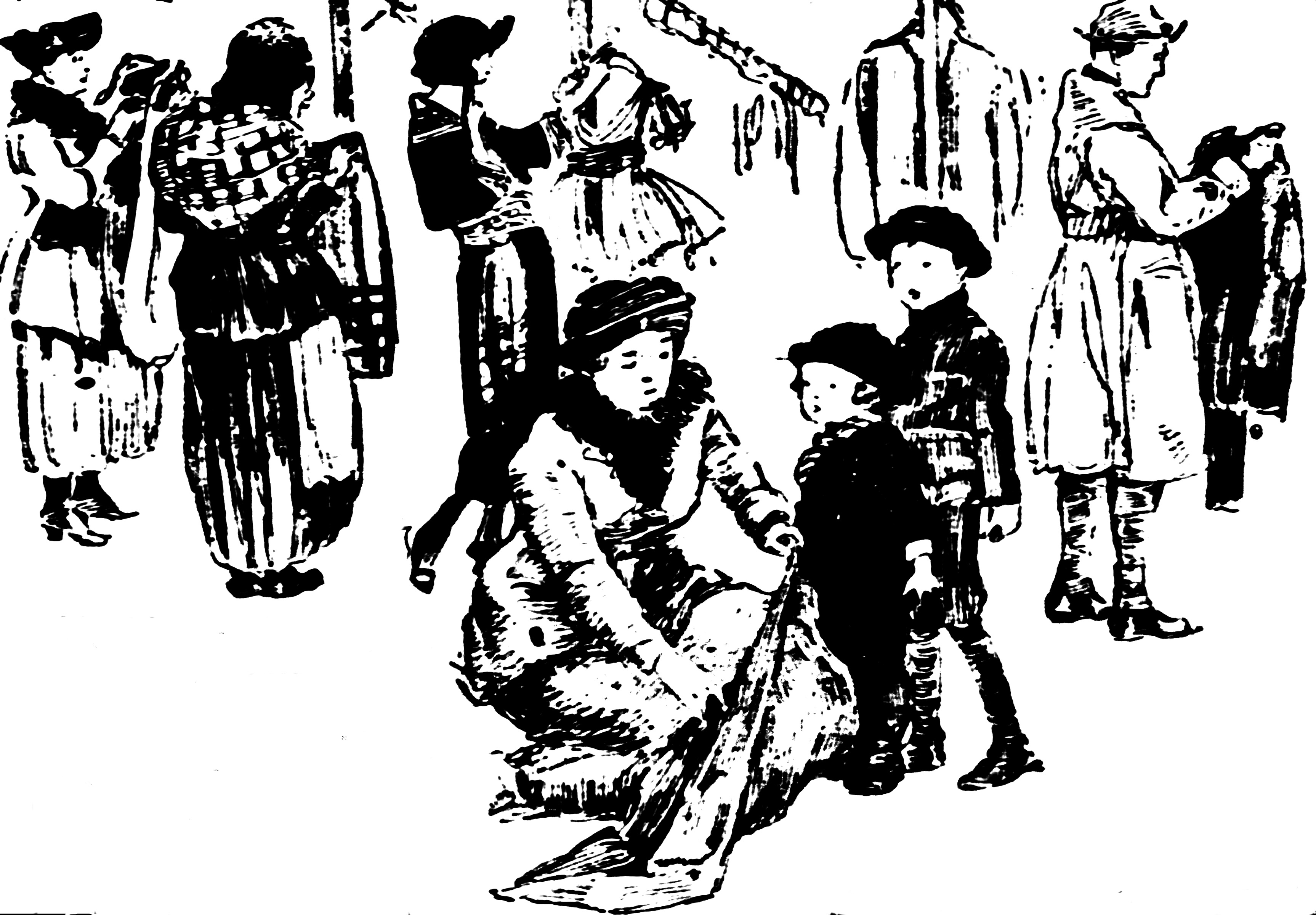 People looking over goods in a second-hand shop as sketched byMarguerite Martyn in 1920 for the St. Louis Post-Dispatch